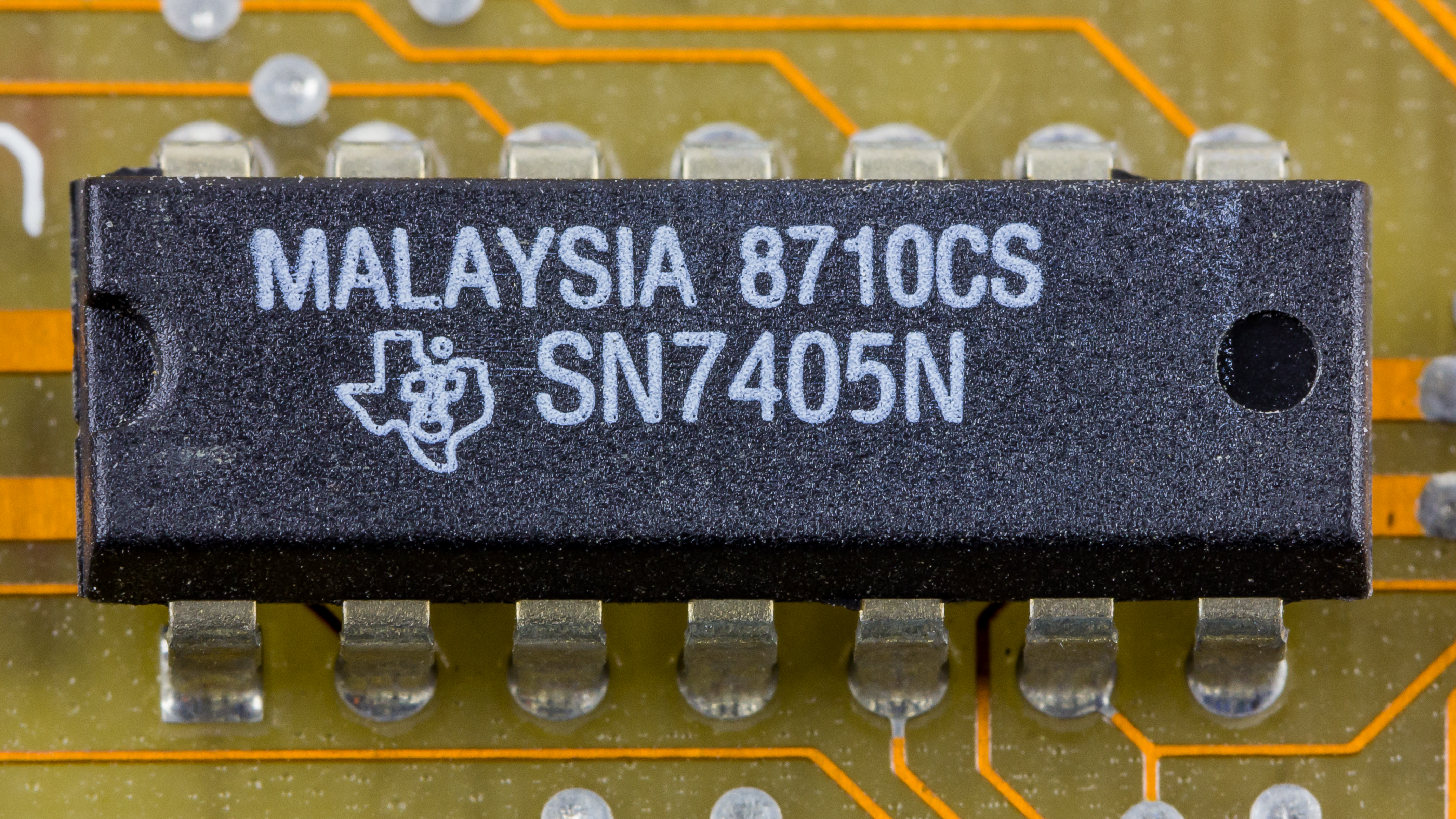 Compaq 000521-001 - Texas Instruments SN7405N . Hex inverters with open-collector outputs. Package: Plastic DIP 14